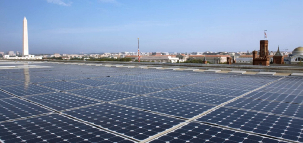 Photovoltaic array on top of the North Building of the United States Department of Energy in 2008. An executive order issued in 2009 requires all U.S. government agencies to reduce power consumption by 30 percent and to obtain 20 percent of power needs from renewable sources. The solar energy array provides about 8 percent of the building's energy needs.